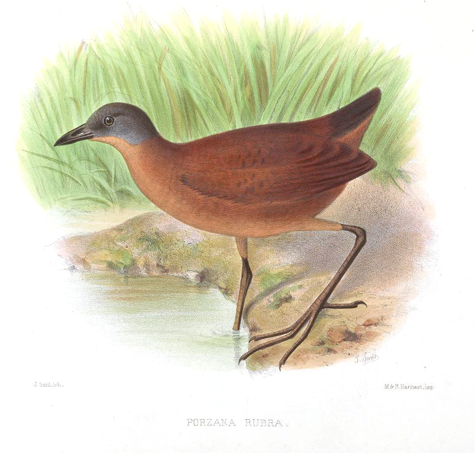 Porzana rubra=Laterallus ruber, ruddy crake